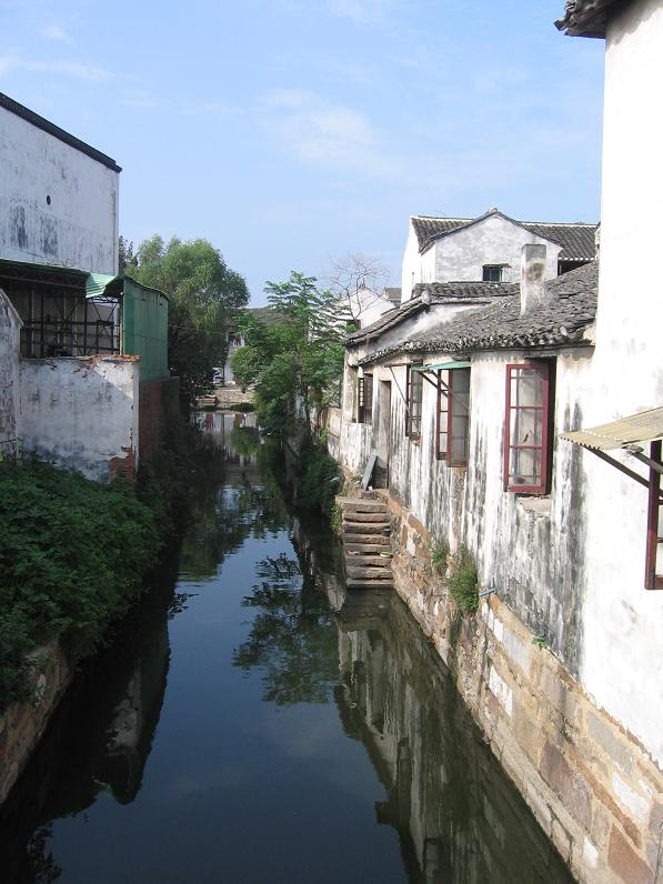 Tongli canal village, Jiangsu, China. Taken by Ariel Steiner.